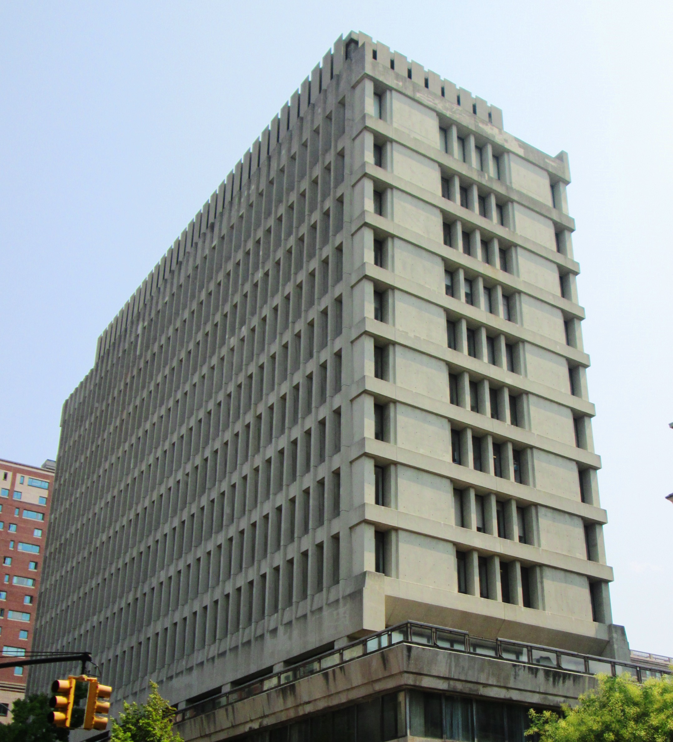 Columbia University's International Affairs Building, located at 420 West 118th Street on the corner of Amsterdam Avenue in the Morningside Heights neighborhood of Manhattan, New York City, was built in 1970 and was designed by Harrison & Abramovitz in the International Style. (Source: Columbia Facilities)